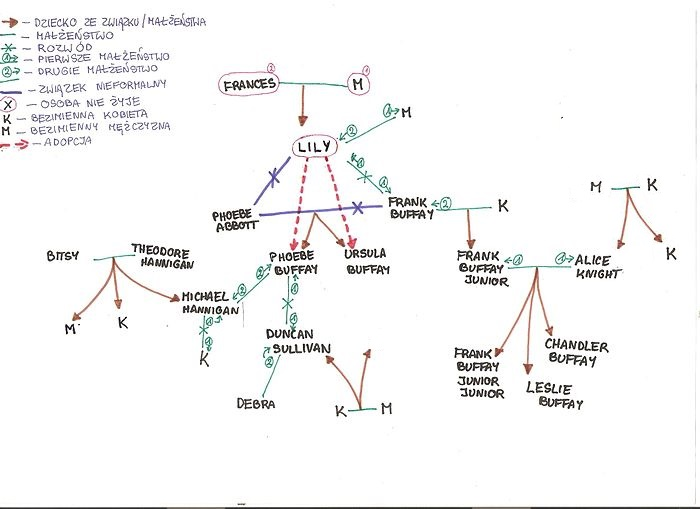 Phoebe Buffay's family tree 2, after including Alice Knight's sister